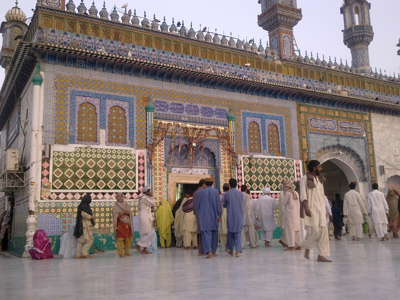 Shrine of Sultan ul Arifeen Sultan Bahu ®.